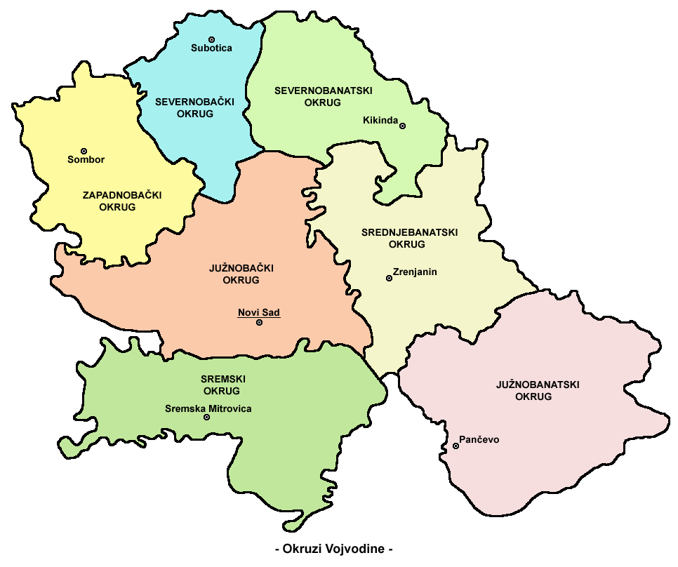 map of the districts of Vojvodina (Serbian language Latin script version) Serbian Cyrillic: мапа округа Војводине (латинична верзија на српском језику) Serbian Latin: mapa okruga Vojvodine (latinična verzija na srpskom jeziku) References Slobodan Radovanović, Geografski atlas, Magic Map, Smederevska Palanka, 2001. Školski geografski atlas, Intersistem Kartografija, Beograd, 2004. Denis Šehić - Demir Šehić, Geografski atlas Srbije, Beograd, 2007.